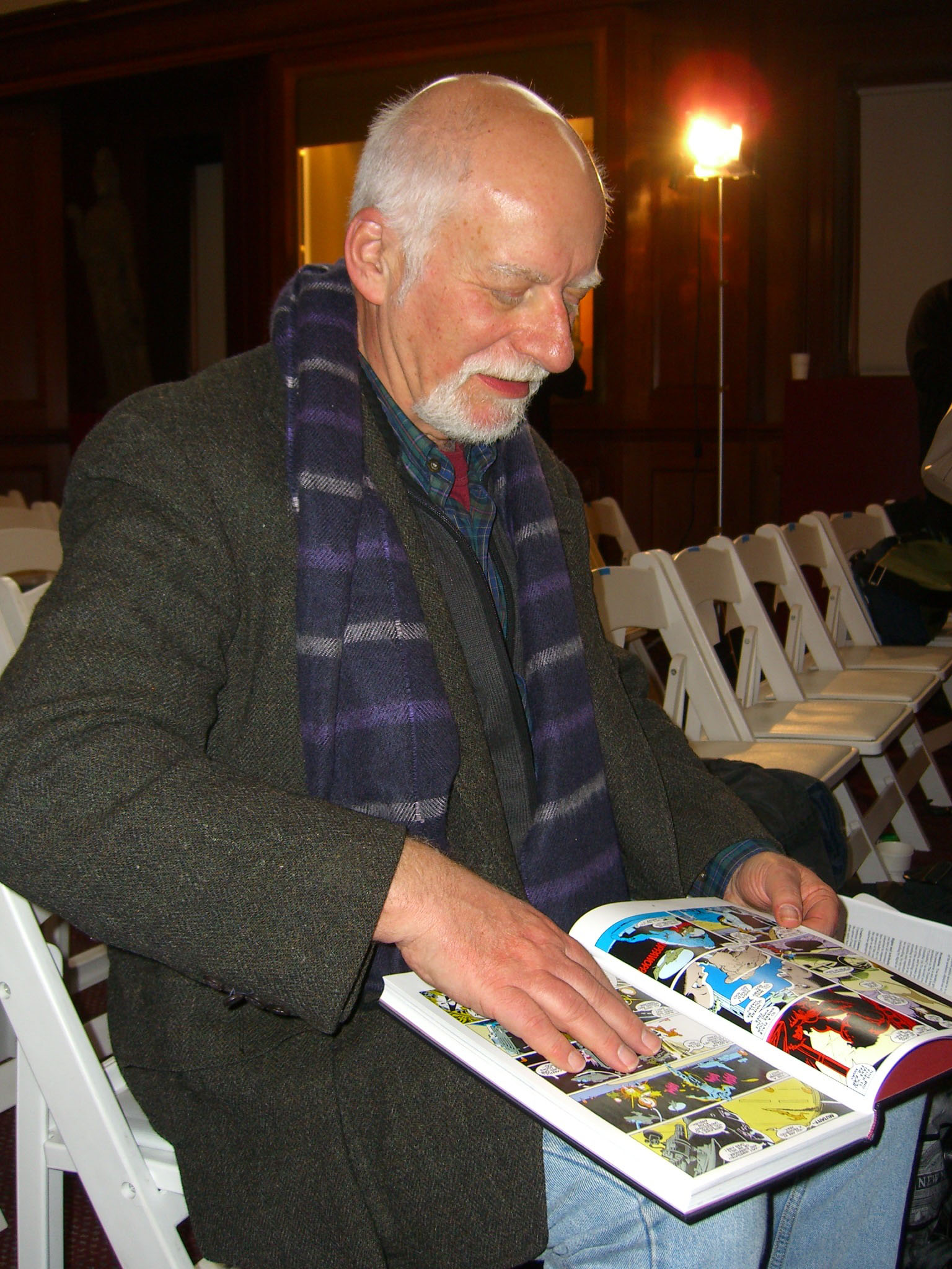 Noted Comic book writer and novelist Chris Claremont at Columbia University's Low Library on March 24, 2012, the second of the two-day Comic New York symposium. In 2011 Claremont, who wrote for the X-Men comics for 17 consecutive years, and created many popular chararcters, donated archives of all his major writing projects over the previous 40 years to the Library's graphic novel collection. In the photo, he looking through a copy of a hardcover X-Men volume that collects many of the issues he wrote, which a fan has given to him to sign. This photo was created by Luigi Novi. It is not in the public domain, and use of this file outside of the licensing terms is a copyright violation.